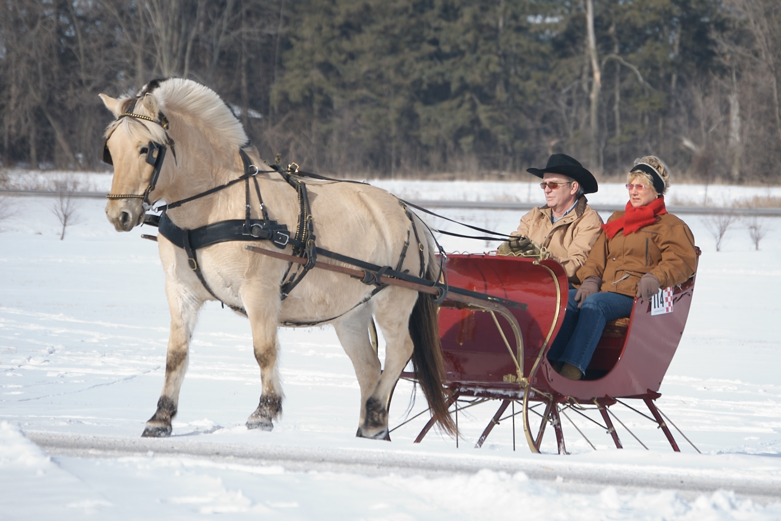 This was another of the competitors at the St. Croix Valley Carriage and Driving Society's 2008 Sleigh and Cutter Festival held in Lake Elmo, Minnesota. This portland cutter is being pulled by a a Norwegian Fjordhorse.